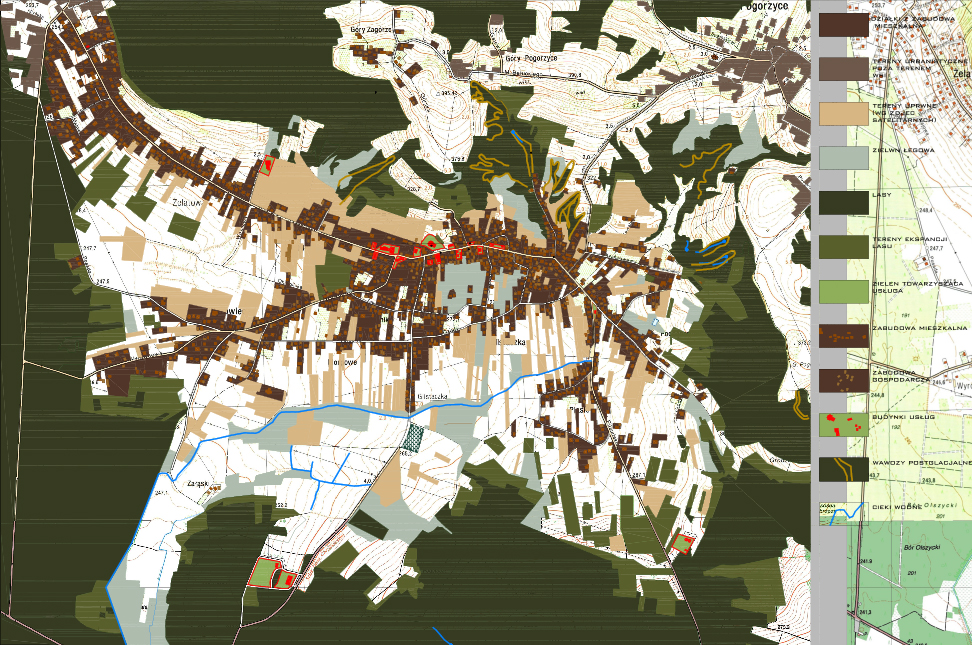 architectural inventory of Zagórze